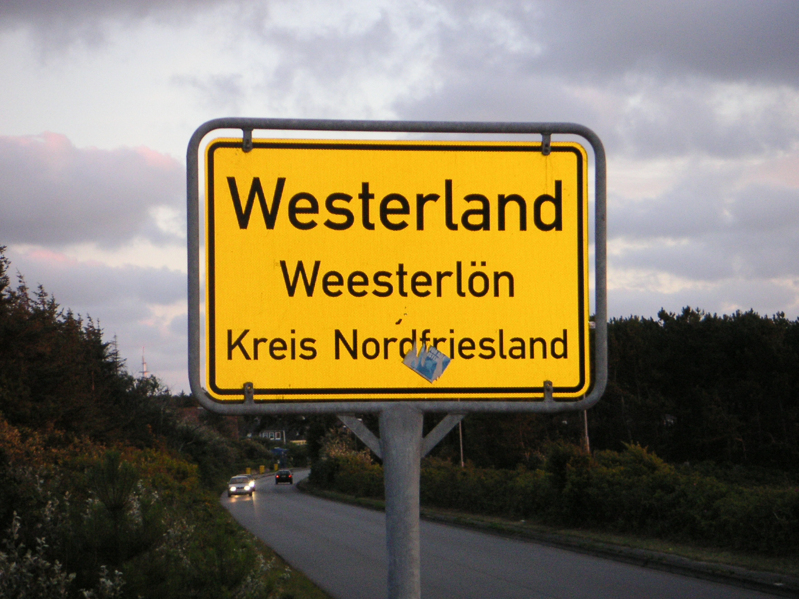 Sign "Westerland/Weesterlön"